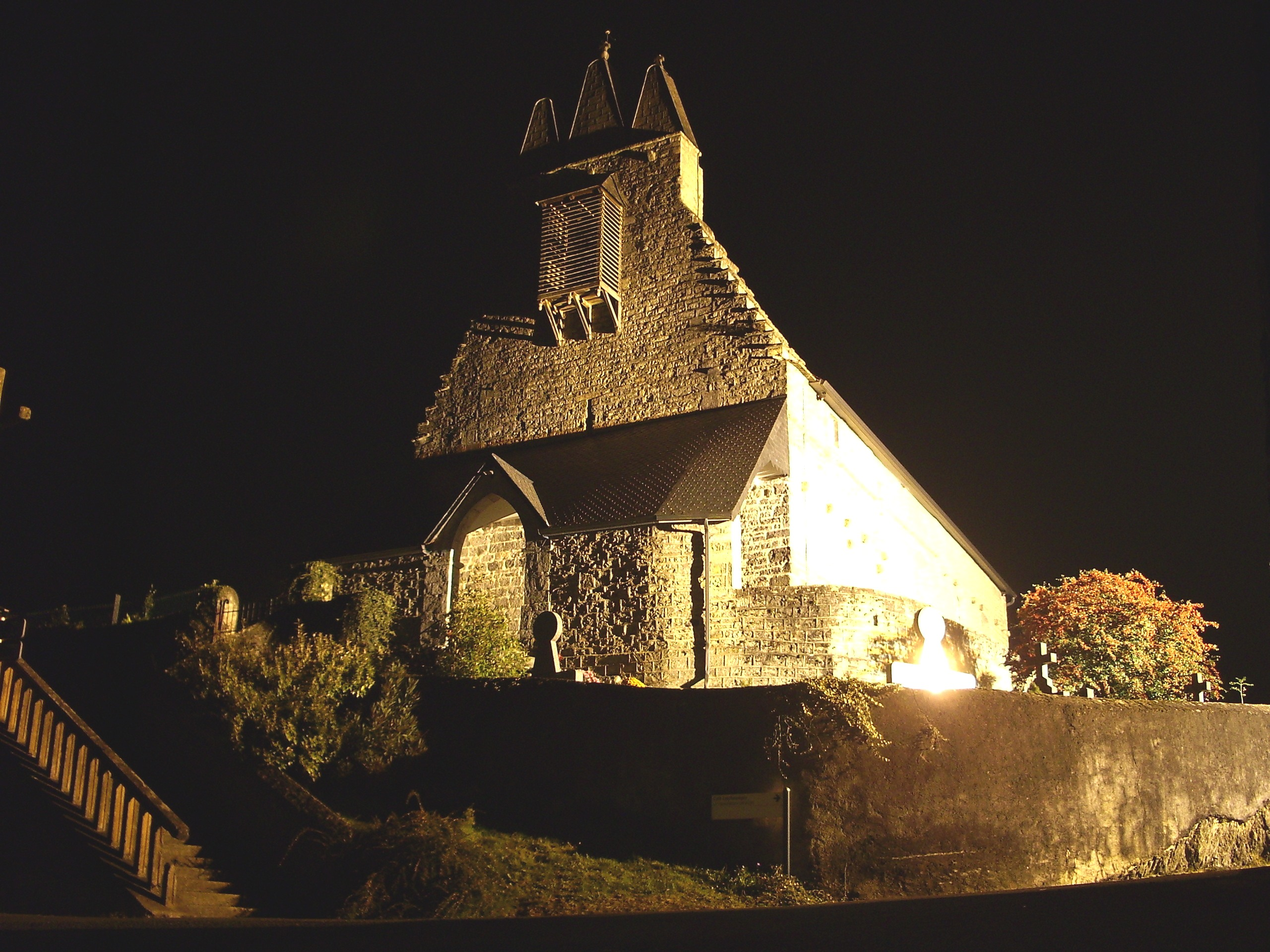 Church of Aussurucq, France